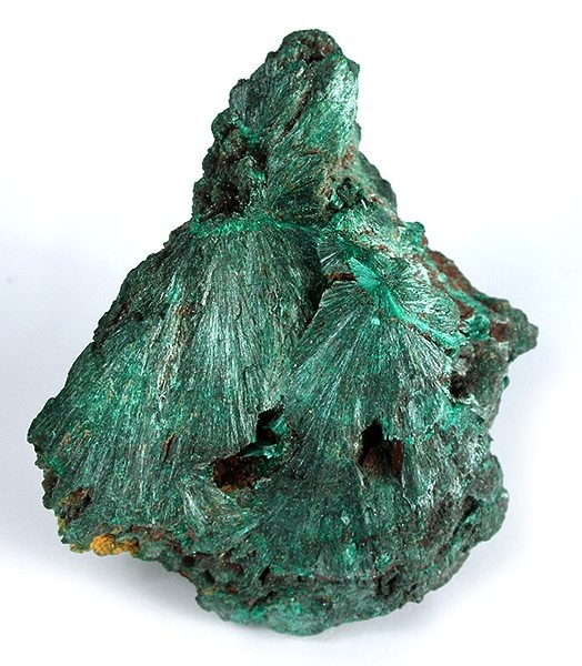 Brochantite Locality: Lavender Open Pit Mine (Lavender pit), Bisbee, Warren District, Mule Mts, Cochise County, Arizona, USA (Locality at ) Size: 5.5 x 4.9 x 1.9 cm. Lustrous, radial clusters of chatoyant, green brochantite needles richly cover gossan matrix on this excellent and showy specimen from the famed Lavender Pit at Bisbee. This is choice and high-quality brochantite from Bisbee and is uncommon in this quality from the Lavender Pit. Ex. Dave and Emily Stoudt Collection.